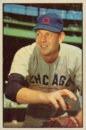 1953 Bowman Color baseball card of Bob Rush of the Chicago Cubs #110. PD-not-renewed